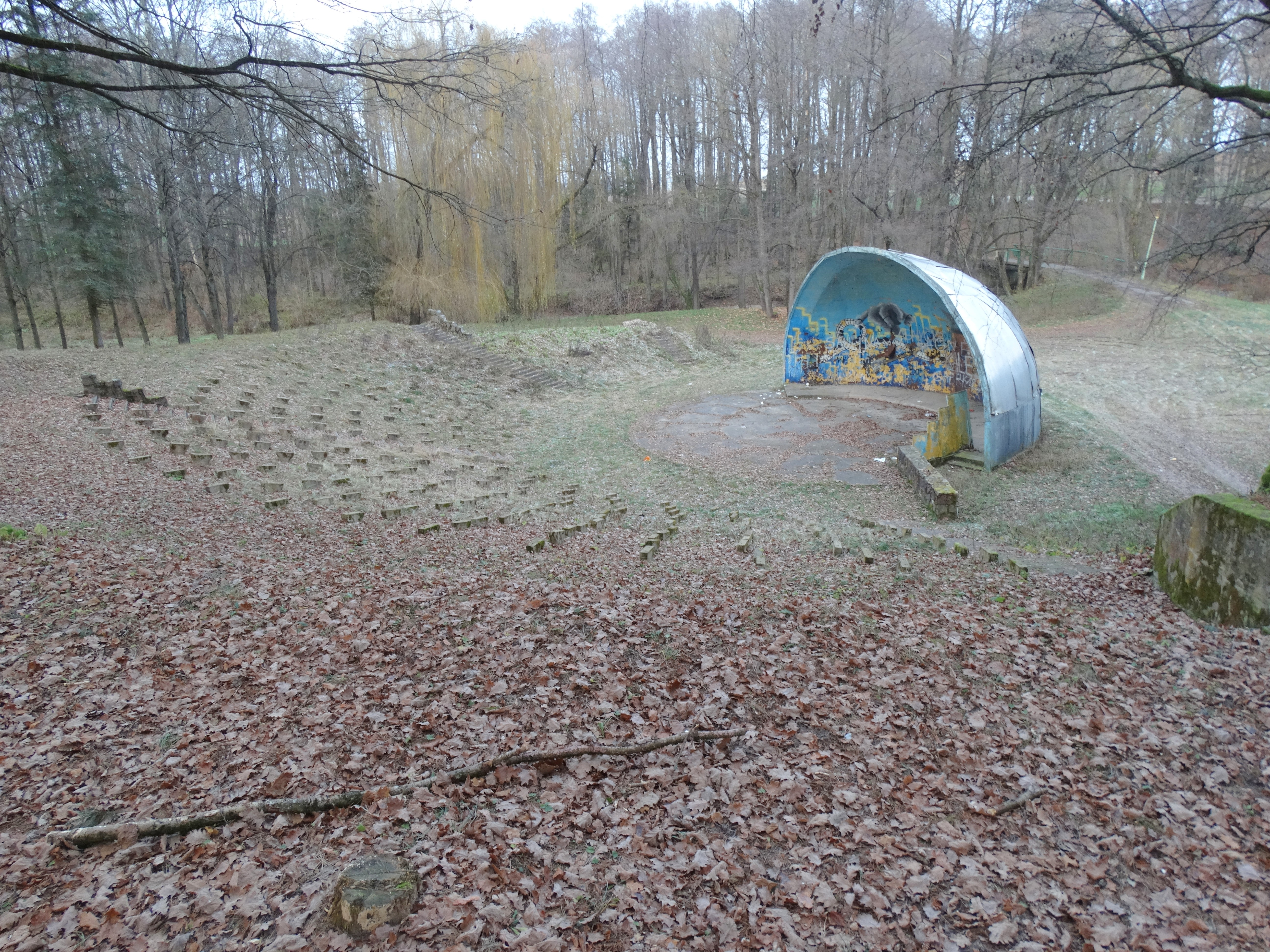 Dovinė River Park, Marijampolė municipality, Lithuania